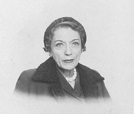 Passport photo of Thyra Samter Winslow, 1955